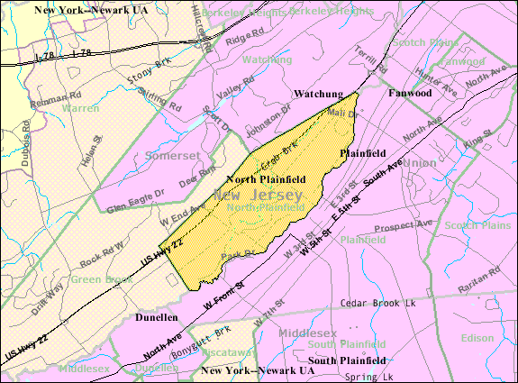 Census Bureu map of North Plainfield